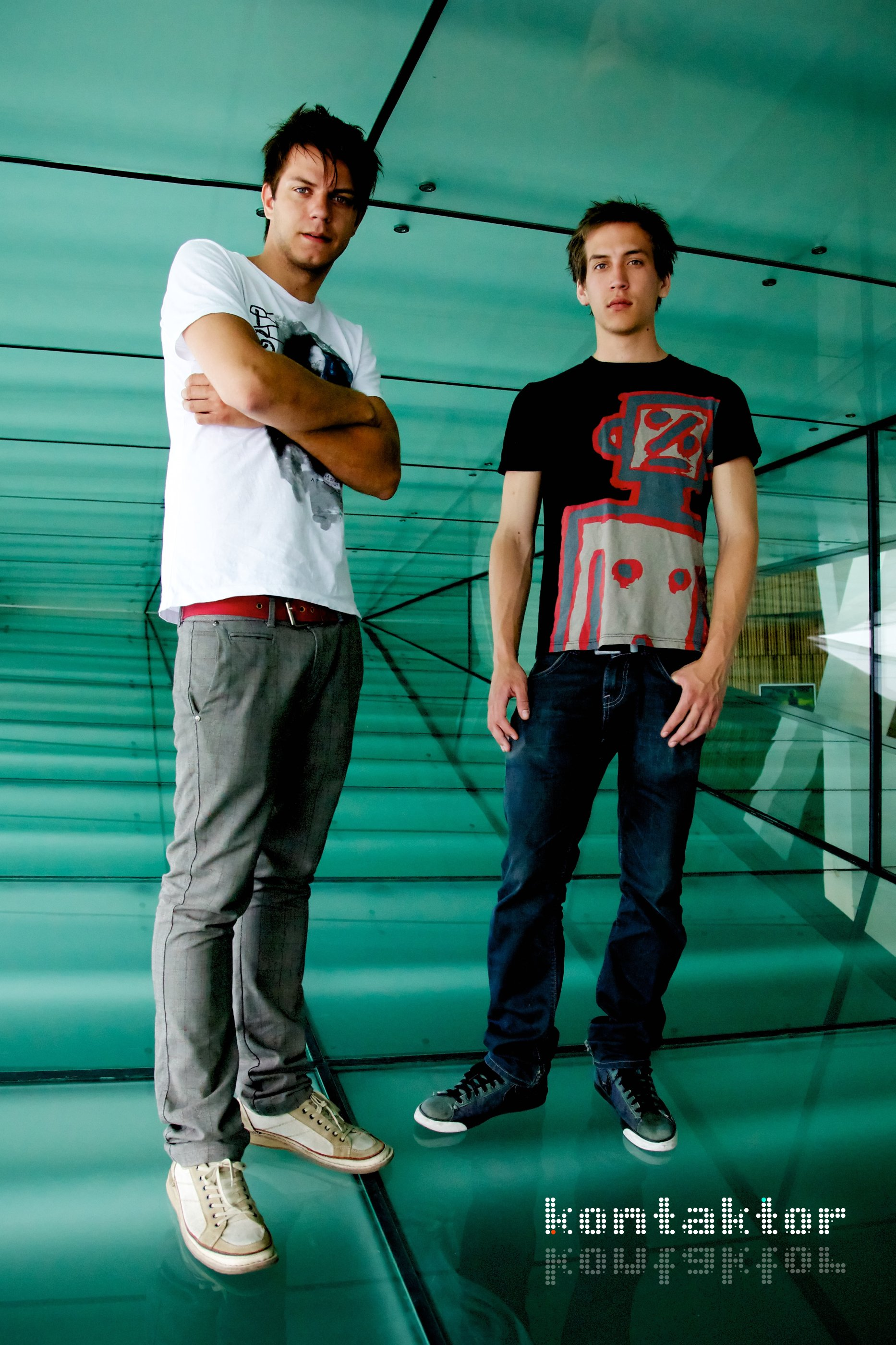 Promotional photo of kontaktor